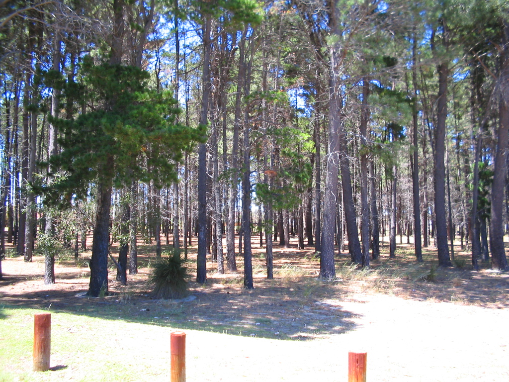 Photograph of some trees.